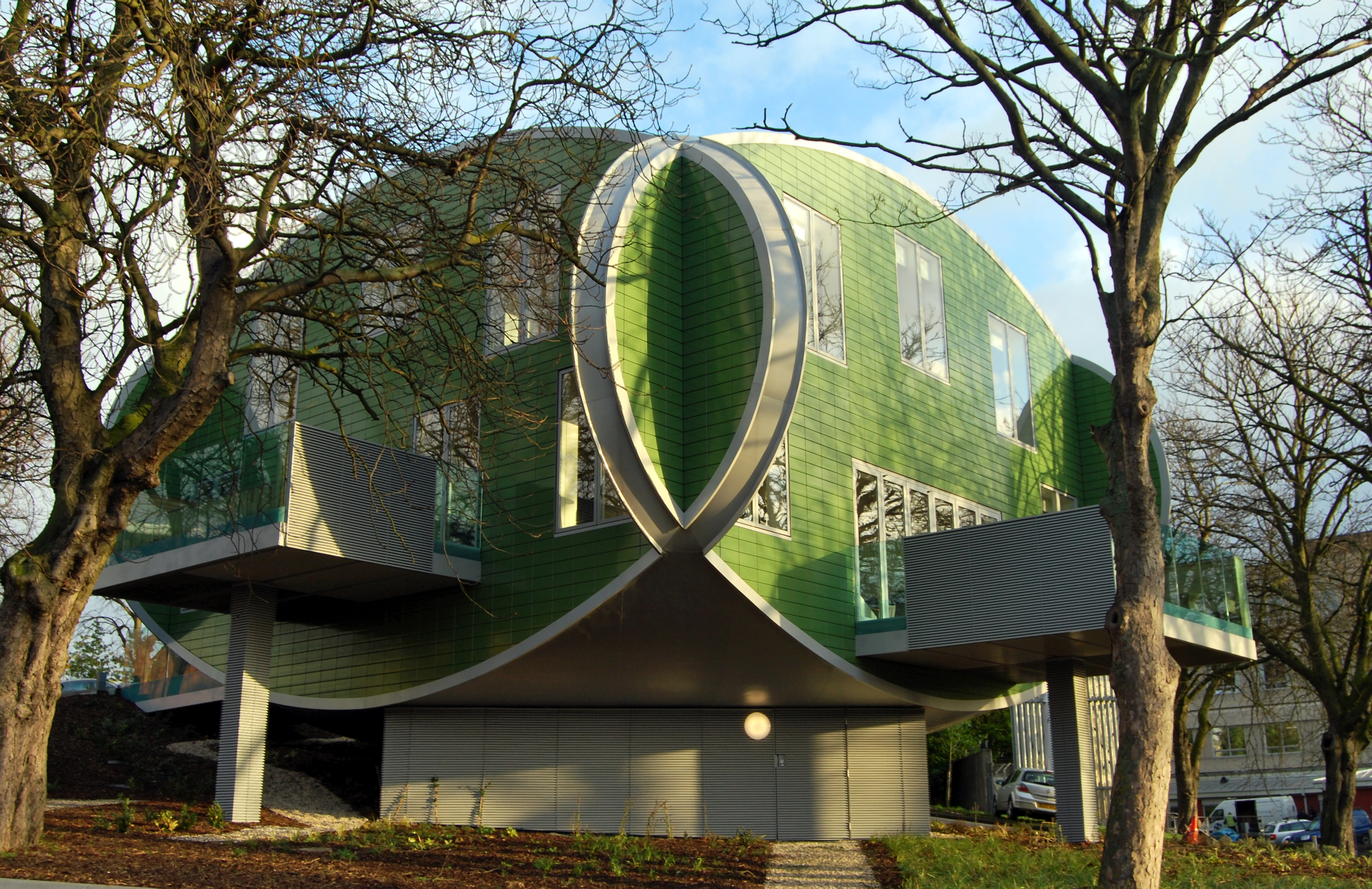 Completed in 2011. Part of the Maggies Cancer Care Group